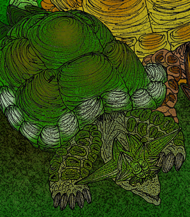 My reconstruction of the prehistoric meiolaniid turtle, Ninjemys oweni, of the rainforests of what is now Queensland, Australia (C) Stanton F. Fink